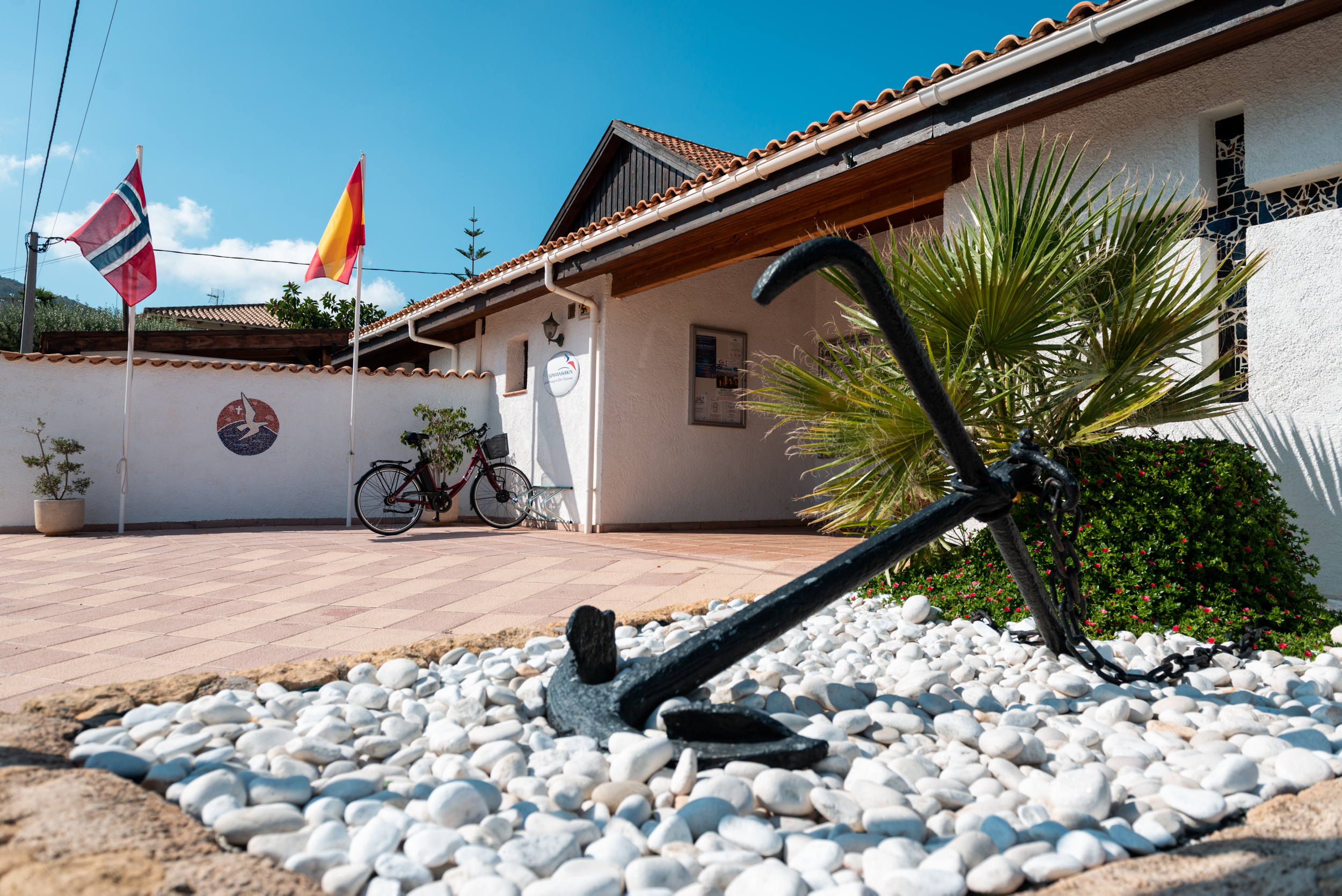 Norwegian church in Albir. Then norwegian church abroad (Sjømannskirken).